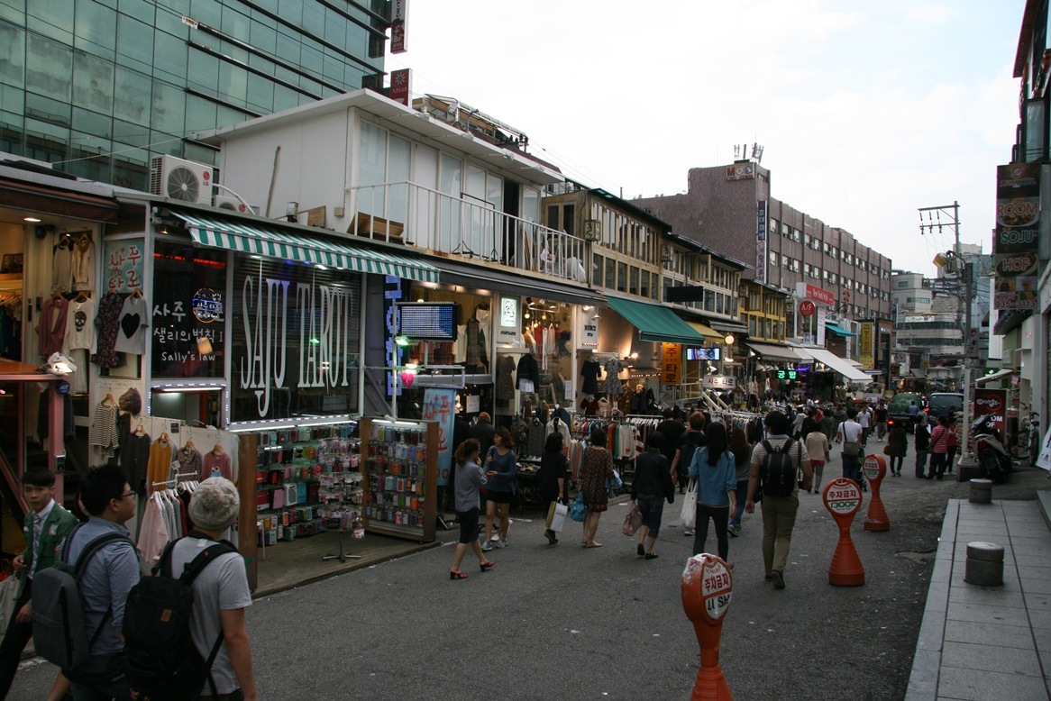 Independent shops on Eoulmadang-ro, Hongdae, Mapo-gu, Seoul in 2012